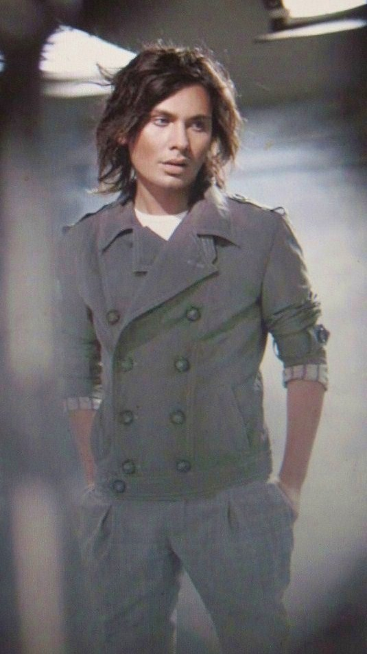 Singer Alex Luna perfoming famous song Night